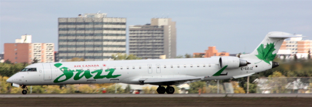 Air Canada Jazz CRJ 900 about to take off from runway 31 at YQR